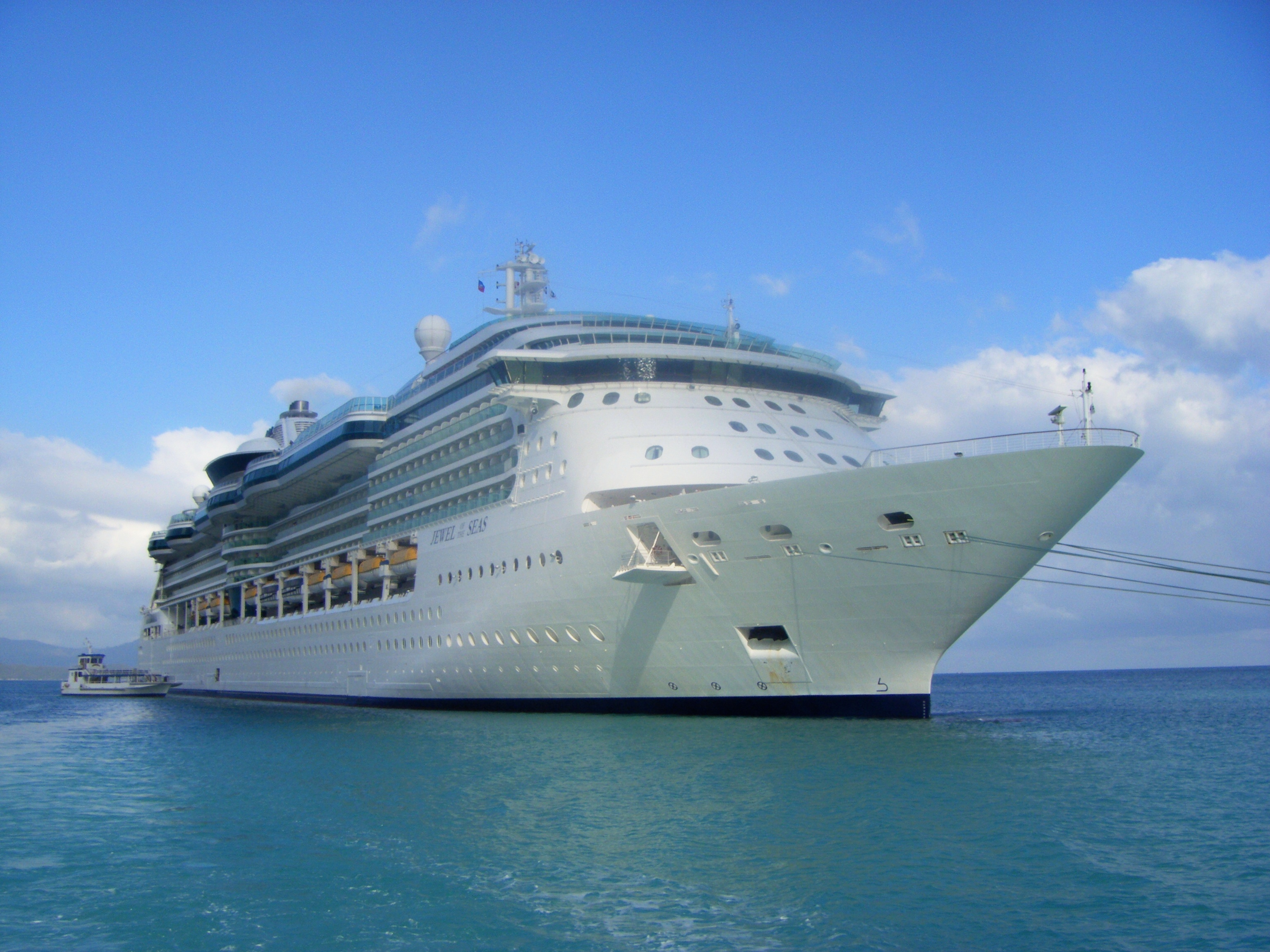 Jewel of the Seas in Labadee